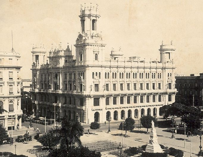 Museo Nacional de Bellas Artes de Cuba, 1927